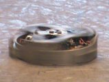 Hypnos